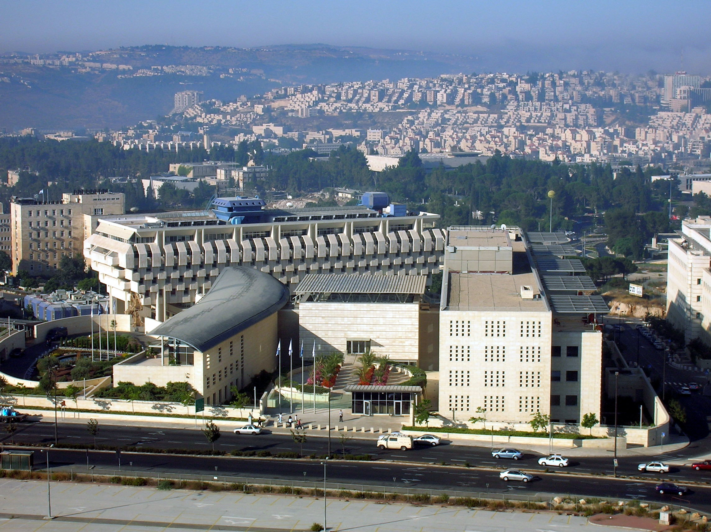 Foreign affairs office building, taken from the Crown Plaza hotel. In the background: Bank of Israel building, Jerusaelm, Israel.